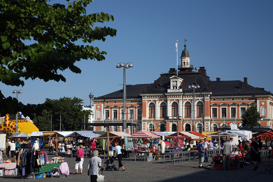 the view of market square, Kuopio, Kuopio.